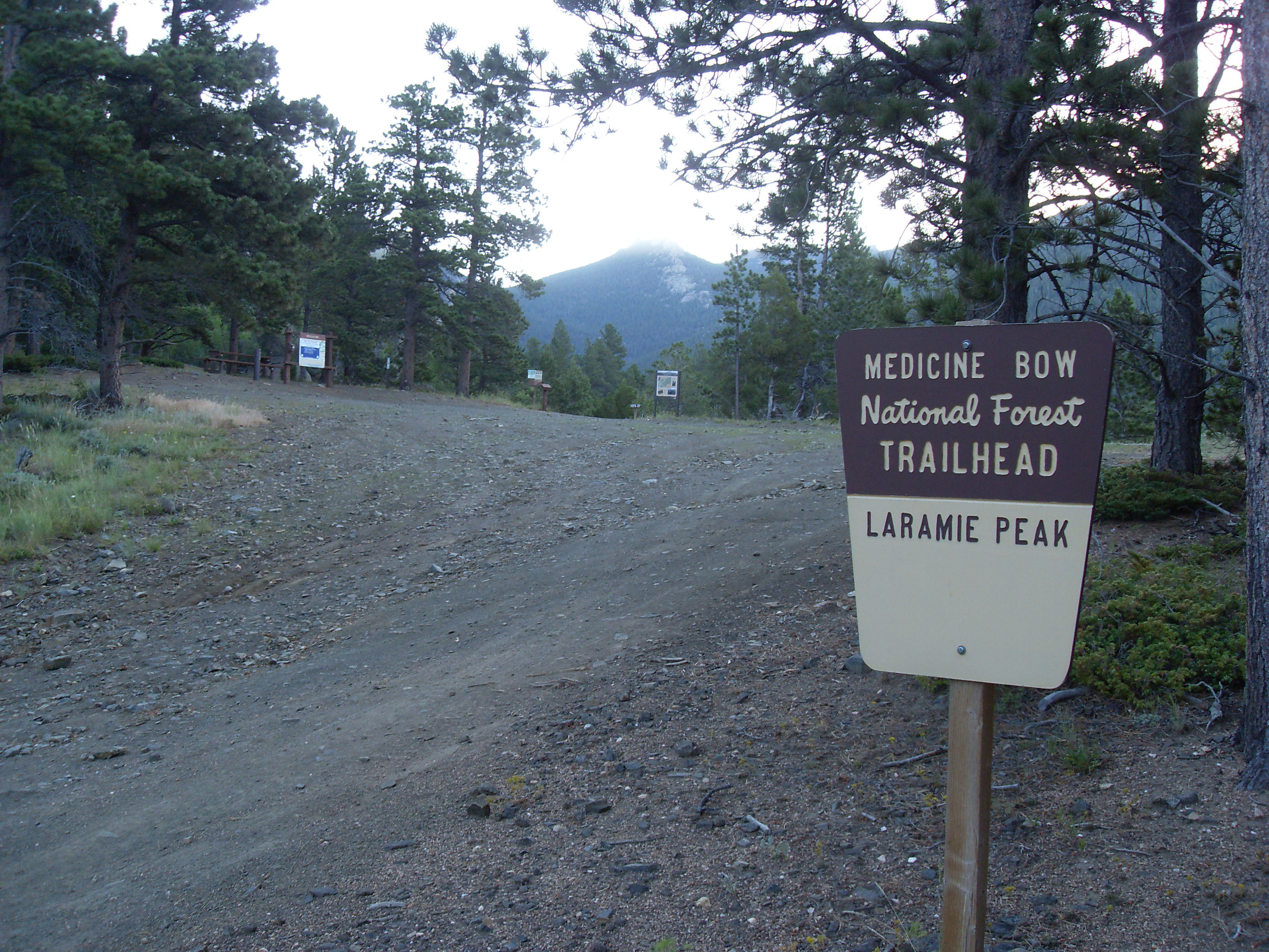 Trailhead of the Laramie Peak Trail, 5 miles and 3000 feet to the peak